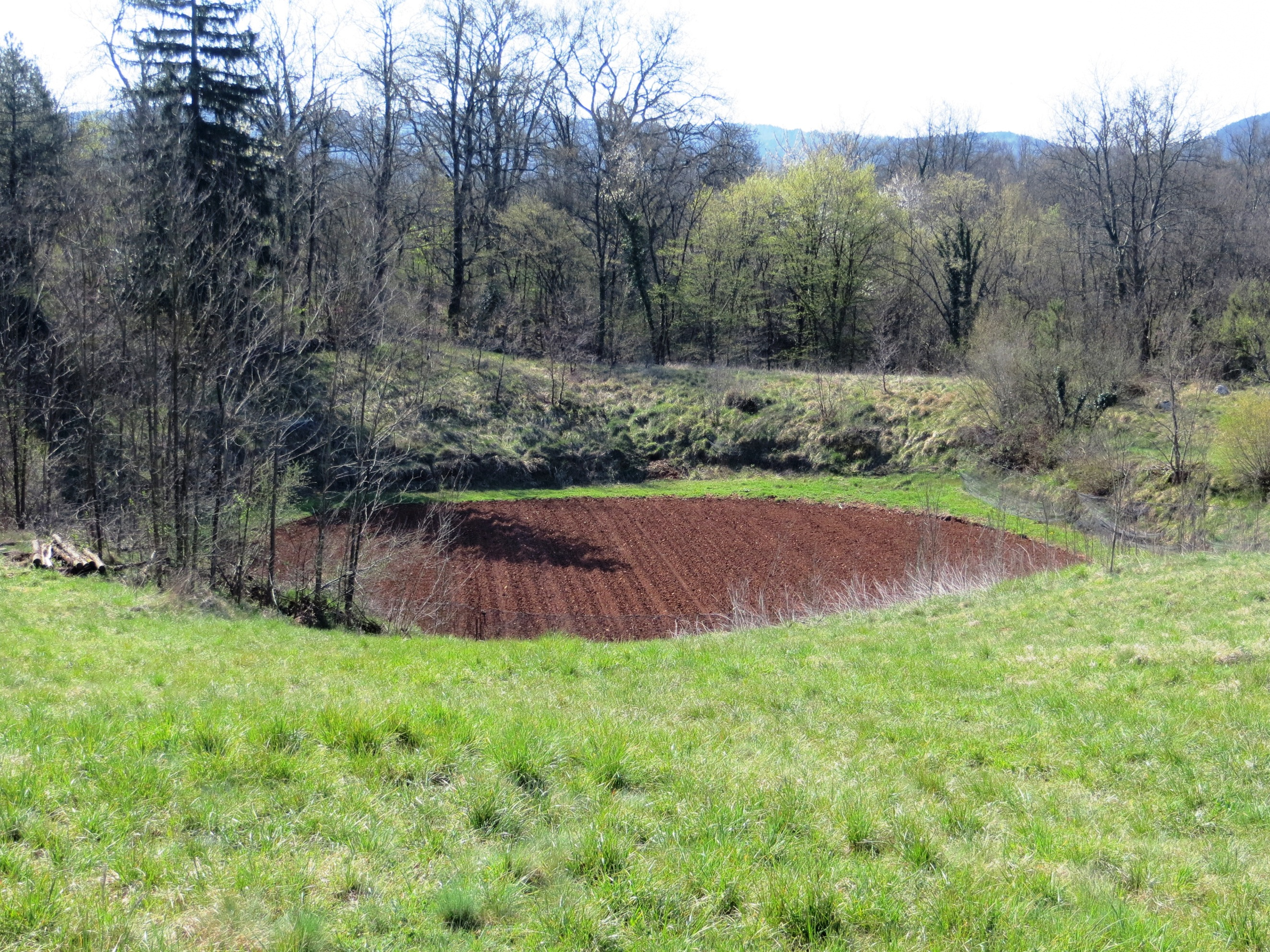 Cultivated sinkhole (Sln. obdelana vrtača) in Dutovlje, Municipality of Sežana, Slovenia